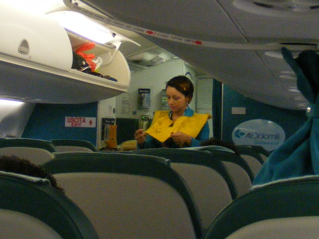 A female flight attendant of Air Dolomiti (Italy) on board an Embraer 195 performing a Pre-flight safety demonstration.